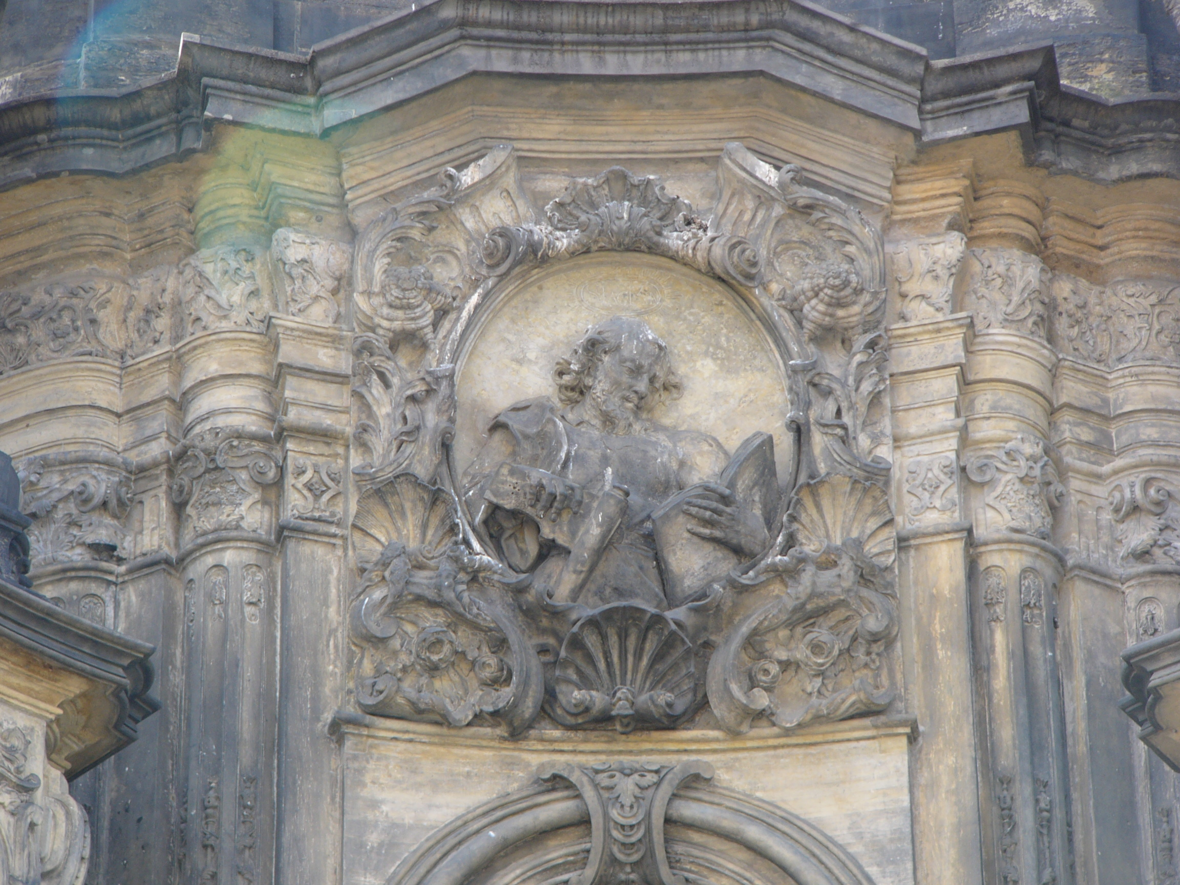 Relief of Saint James the Less on the Holy Trinity Column in Olomouc in Olomouc (Czech Republic).